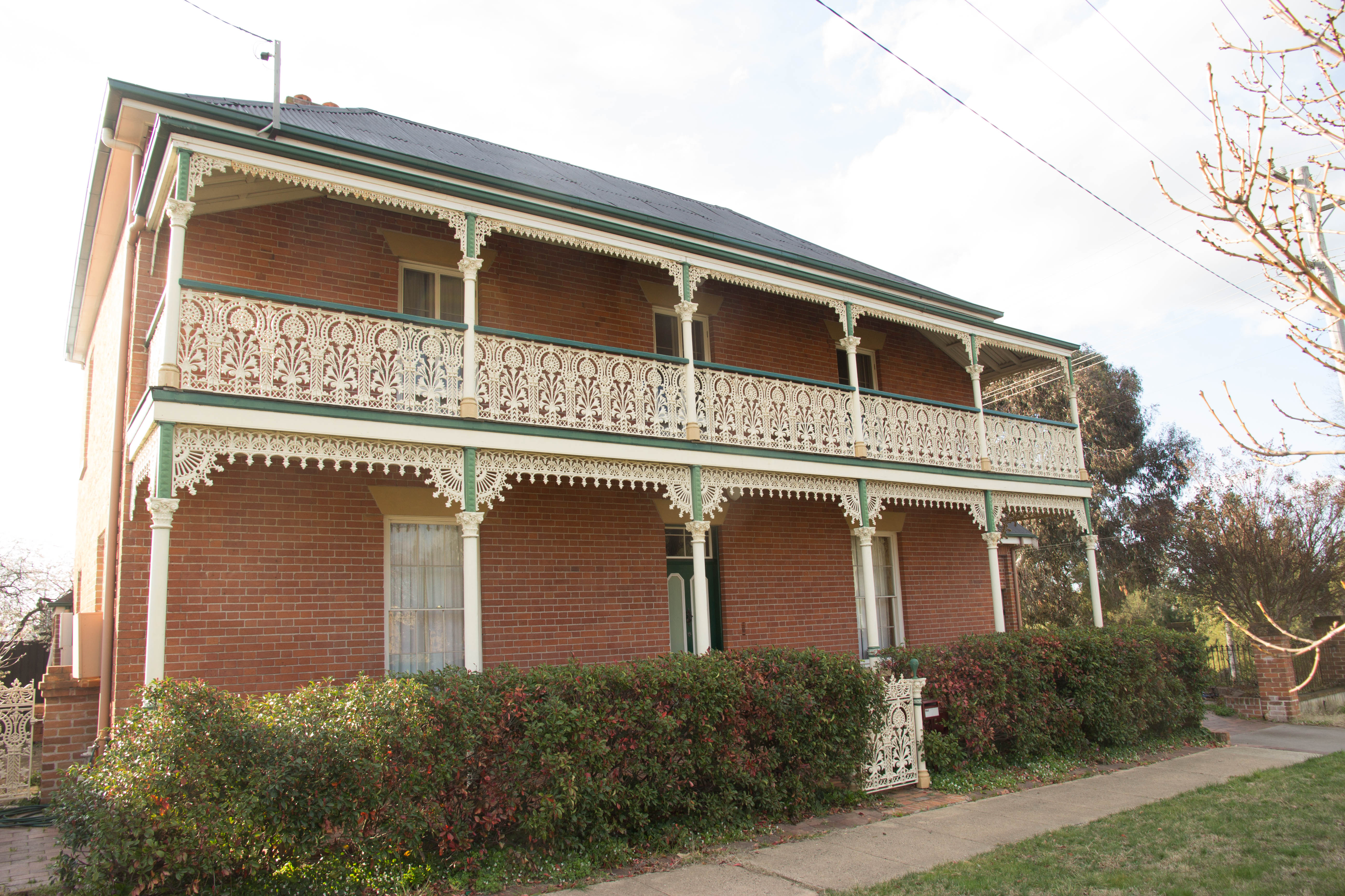 Lachlan Macquarie and Elizabeth Macquarie old government house in Bathurst, New South Wales